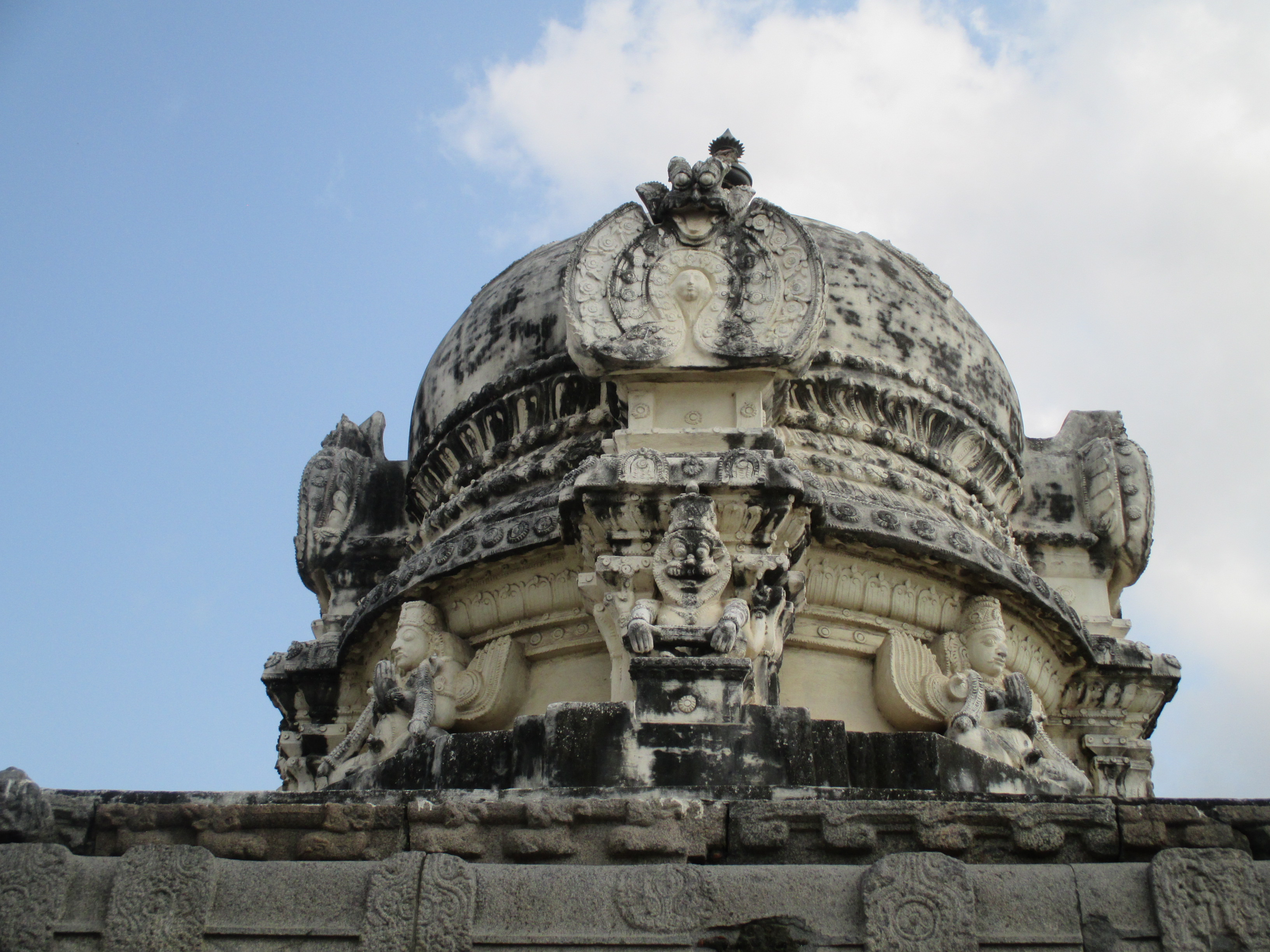 Vaikunda Perumal Temple, Uthiramerur